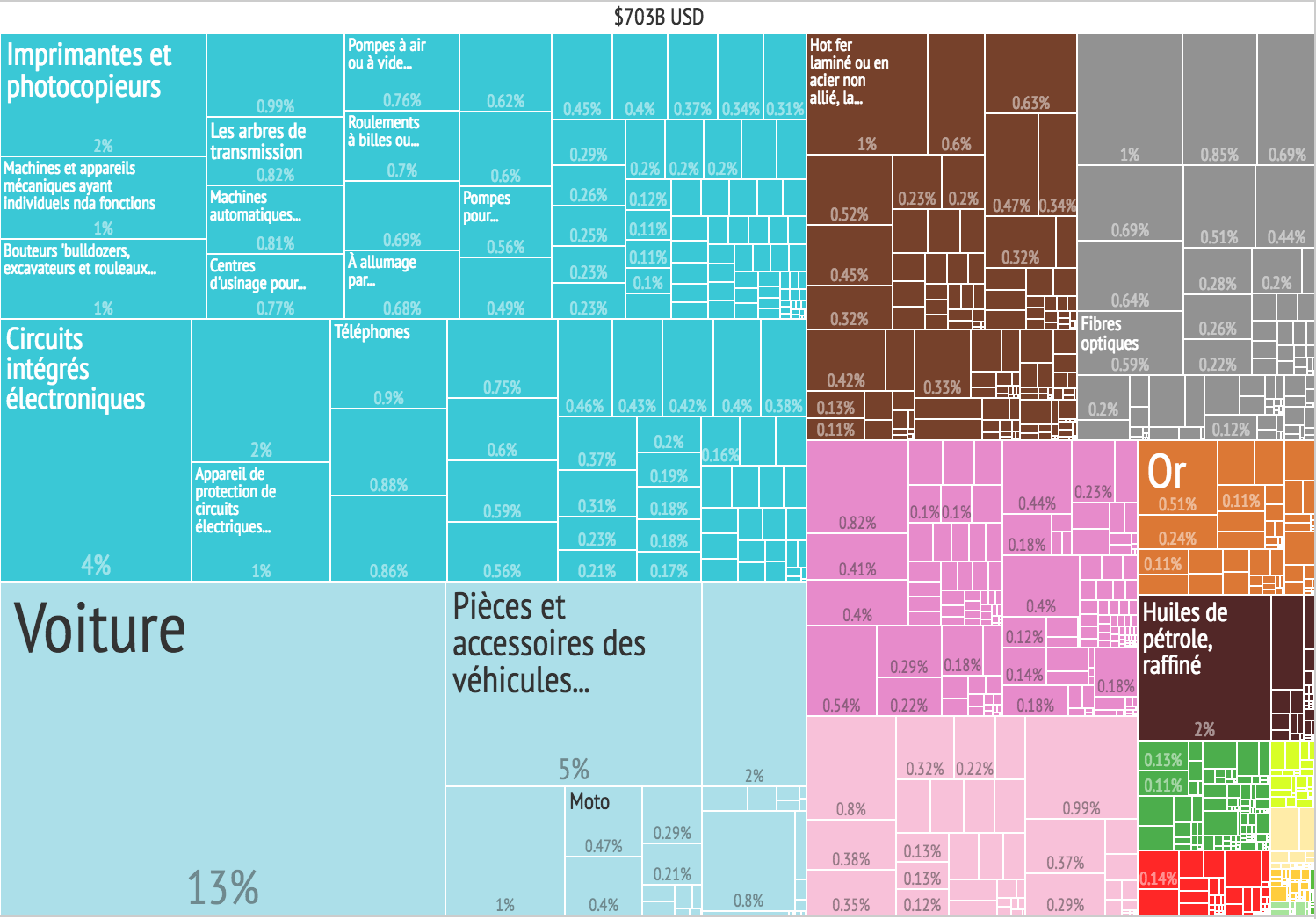 2014 produits japon exportation treemap